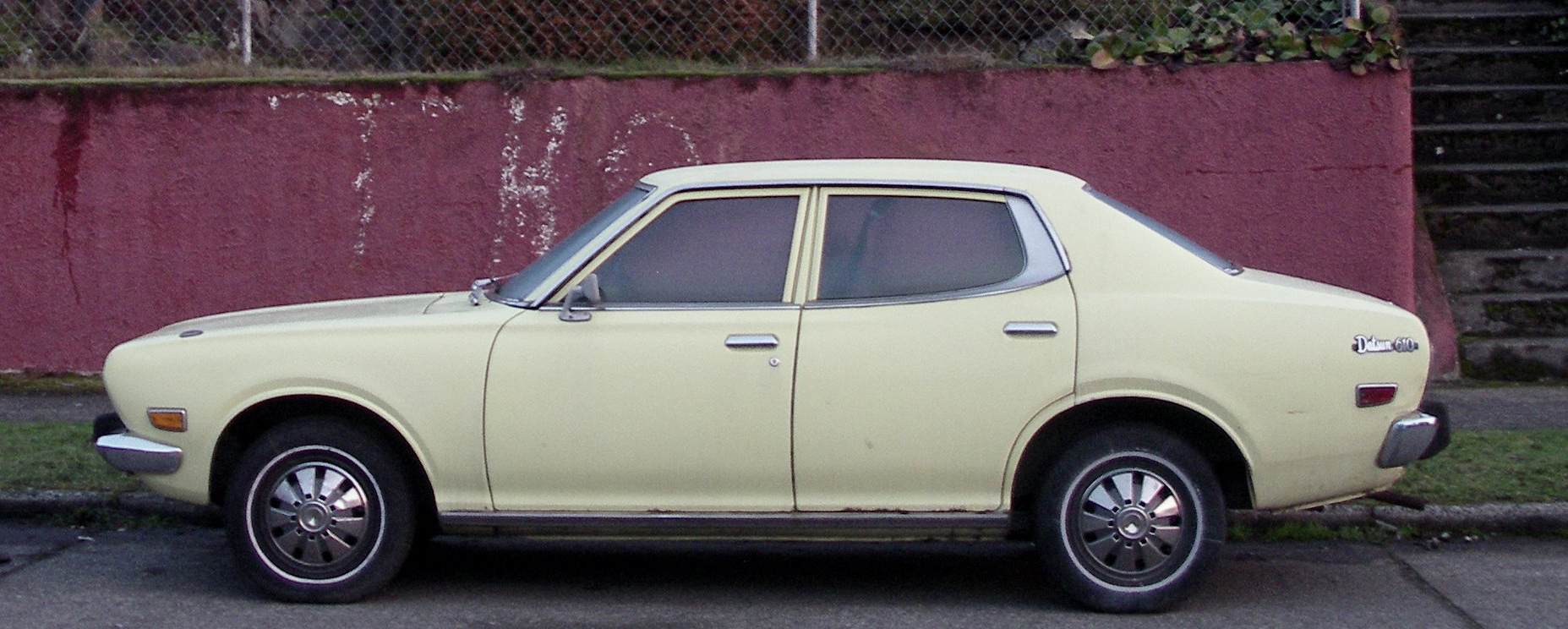 A Datsun 610 (Bluebird) sedan in shockingly immaculate condition.